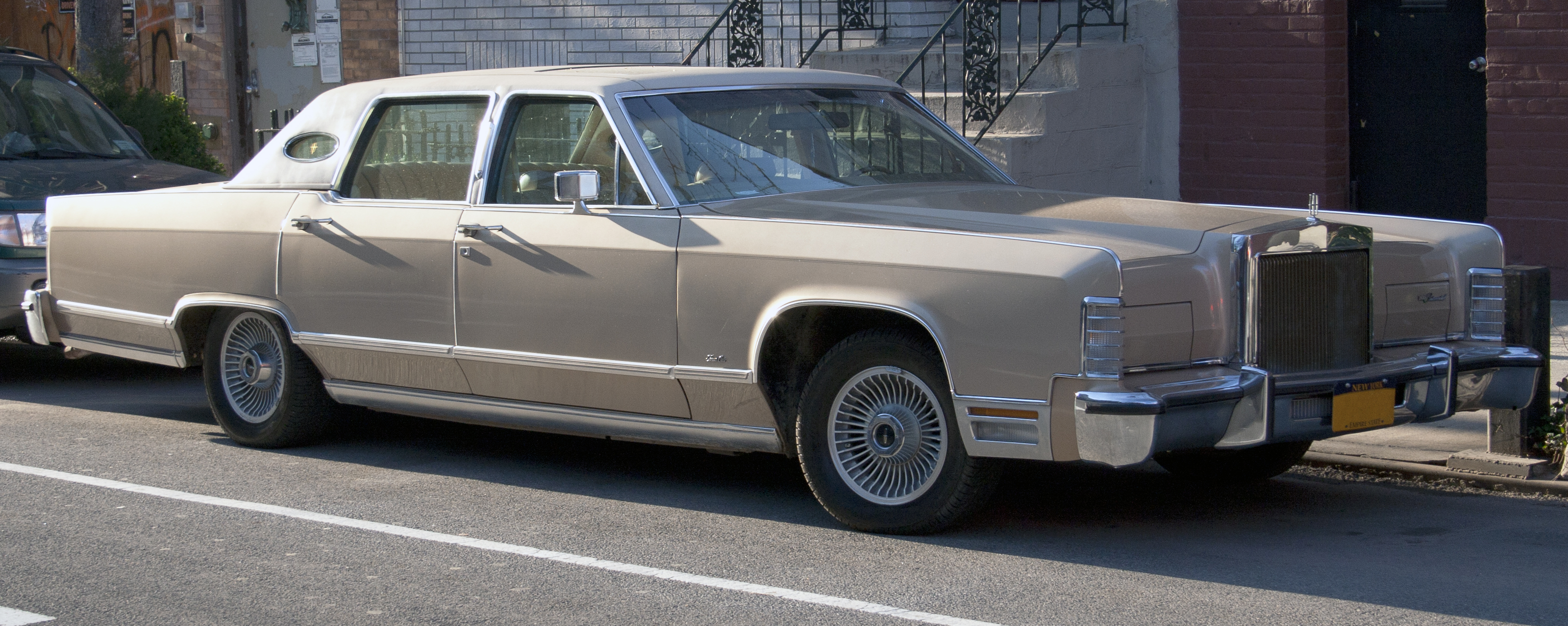 1979 Lincoln Continental Town Car